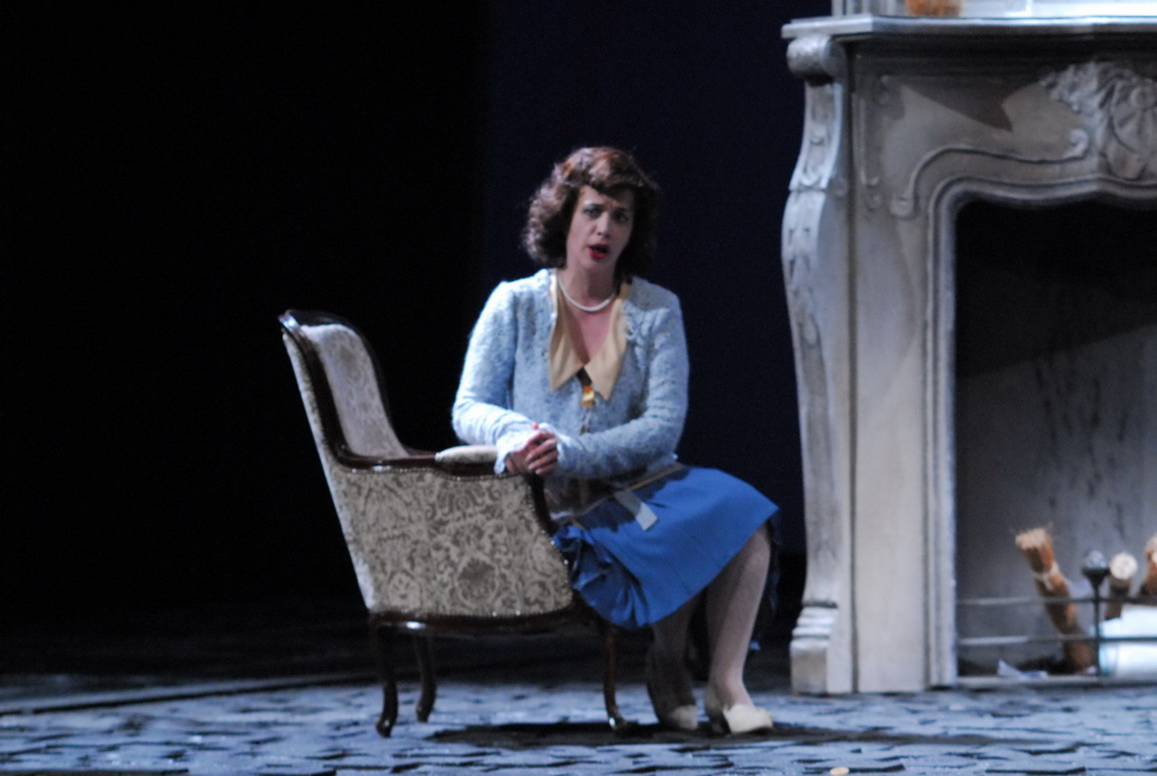 La bohème composed by Giacomo Puccini, Opera, Danijela Jovanović, soprano, SNT, Novi Sad, 2006/2007 Srpski (latinica): Boemi, opera Đ. Pučinija, Danijela Jovanović, sopran, SNP, Novi Sad, 2006/2007 Српски (ћирилица): Боеми, опера Ђ. Пучинија, Данијела Јовановић, сопран, СНП, Нови Сад, 2006/2007